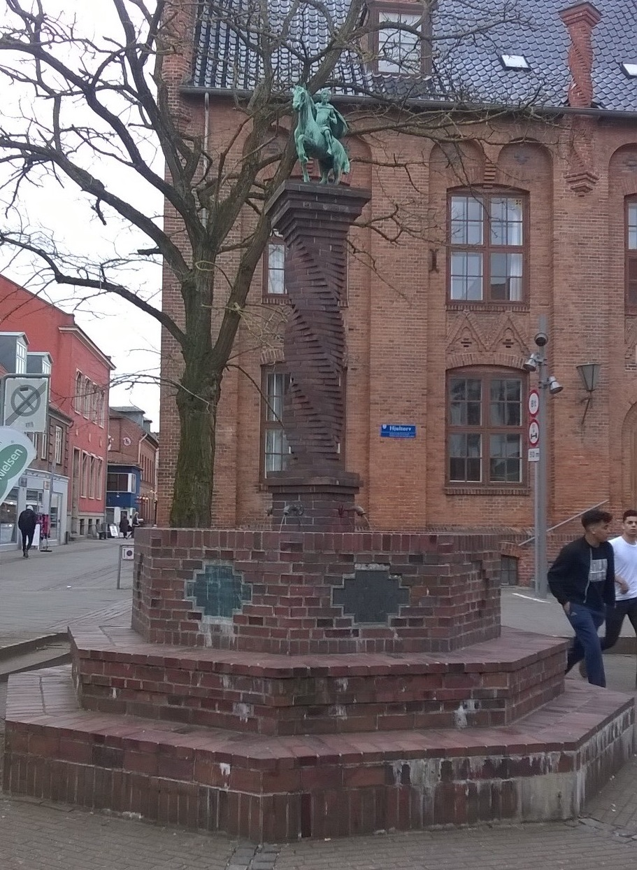 The smallest equestrain in Denmark. Located at Hjultorvet (Wheel Square).